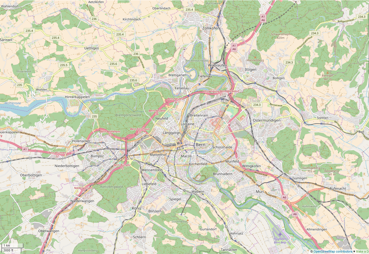 Bern Switzerland and surrounding region from OpenStreetMap. Approx borders top:47.0072 left:7.3310 right:7.5519 bottom:46.9037. This map may be incomplete, and may contain errors. Don't rely solely on it for navigation.